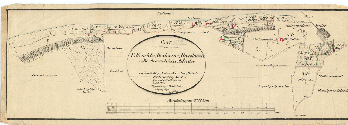 Ellekilde og Boderne på matrikelkort 1860-1878